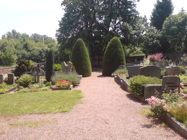 Mennonite Cemetery in Bolanden-Weierhof